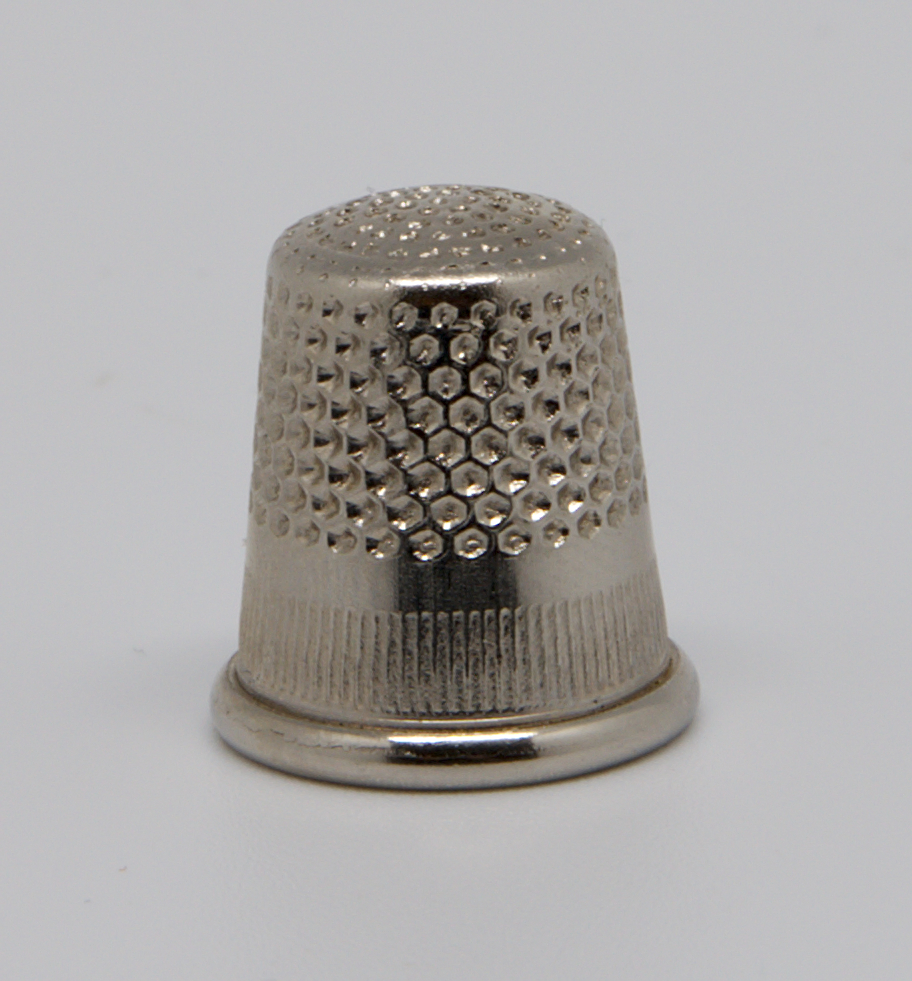 Thimble